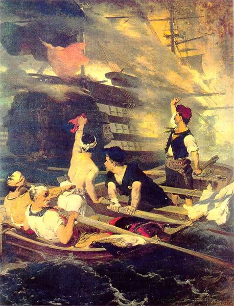 "The blowing up of the Turkish flagship by Kanaris", 143x109 cm. Averoff Gallery